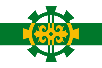 Flag of Argun, Chechnya, Russia